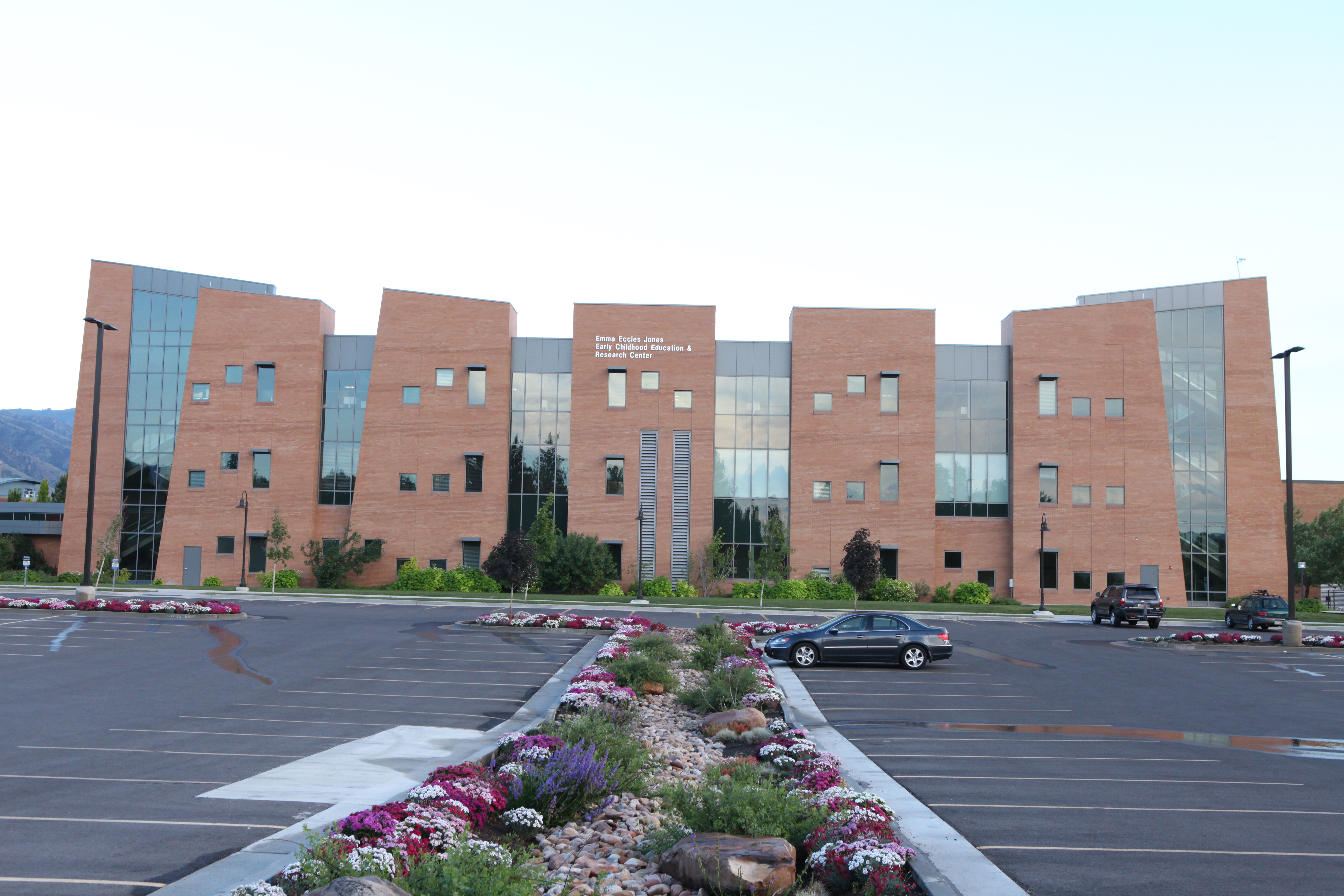 This is a photo of Utah State University's Emma Eccles Jones College of Education and Human Services Research Center